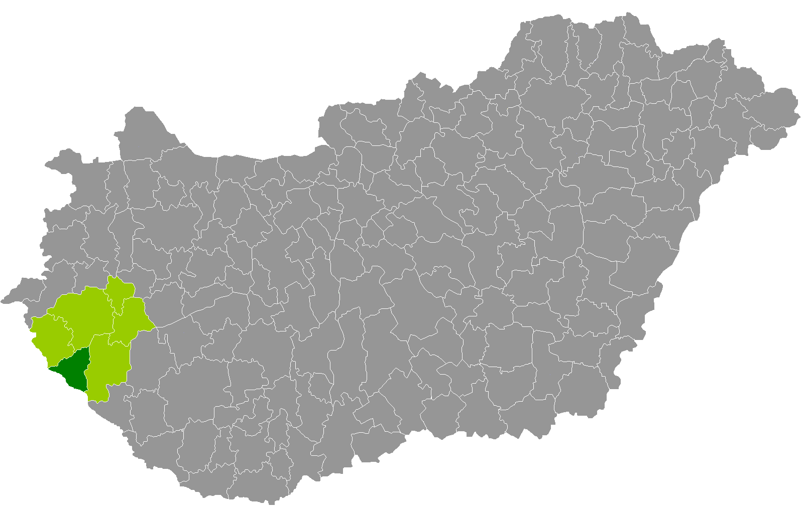 Location of Letenye District, Zala, Hungary